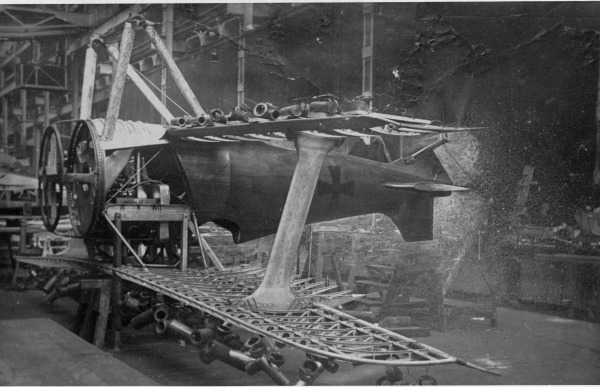 PictionID:43637303 - Catalog:16_004511 - Title:Siemens-Schuckert D.IIe 1917 Nowarra photo - Filename:16_004511.TIF - - - - - - - Image from the Ray Wagner Collection. Ray Wagner was Archivist at the San Diego Air and Space Museum for several years and is an author of several books on aviation --- ---Please Tag these images so that the information can be permanently stored with the digital file.---Repository: San Diego Air and Space Museum